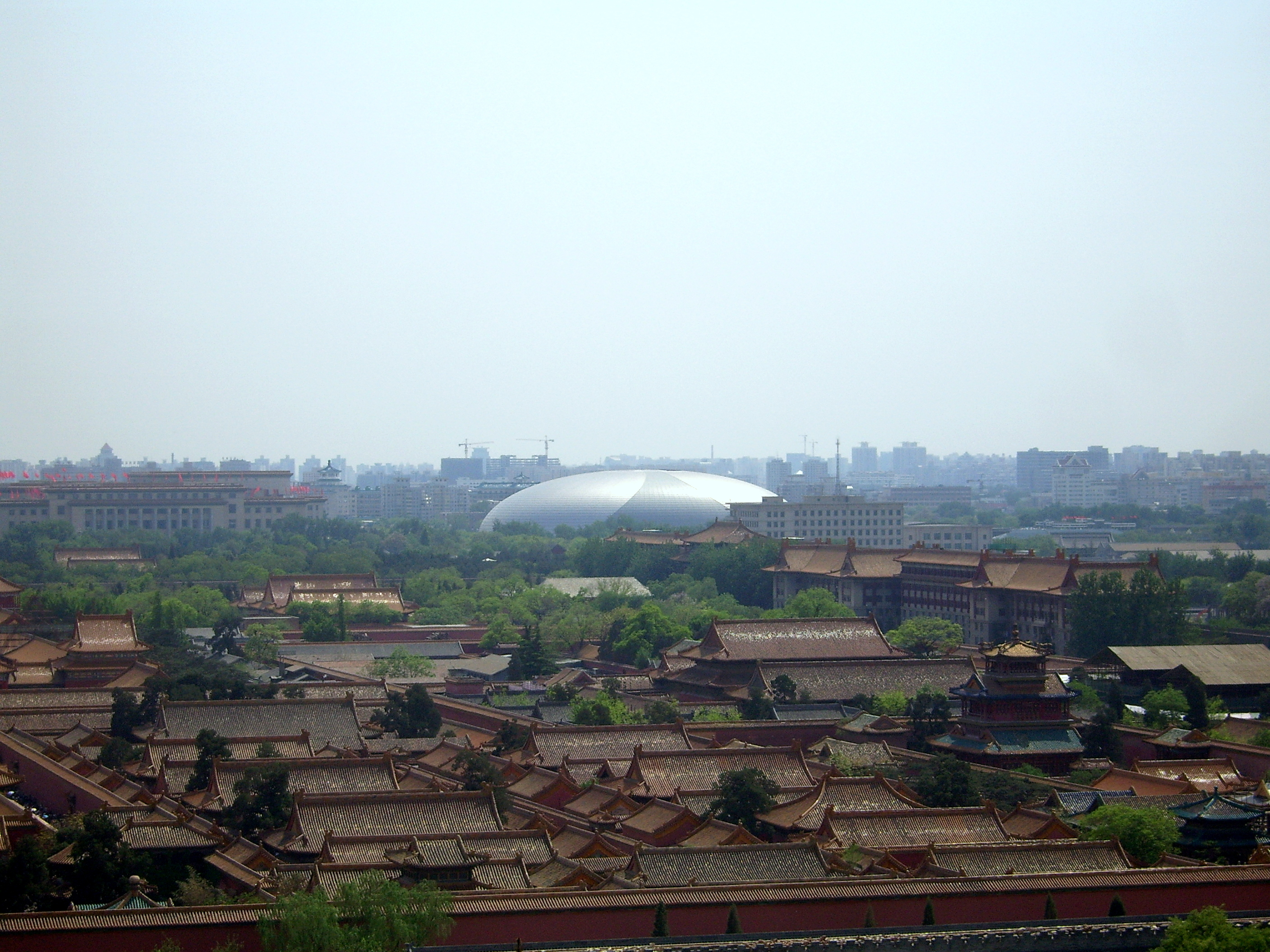 The National Centre for the Performing Arts (National Grand Theatre) in Beijing, viewed from the North-East, with the Forbidden City in the foreground and the Great Hall of the People to the left.